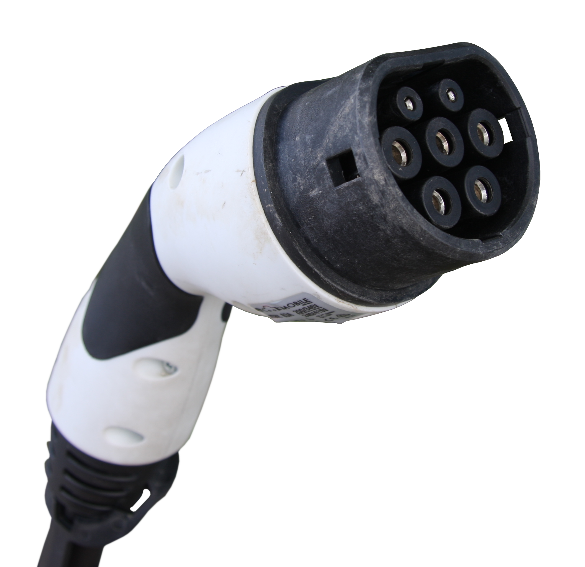 The side oblique view of a Type 2 connector